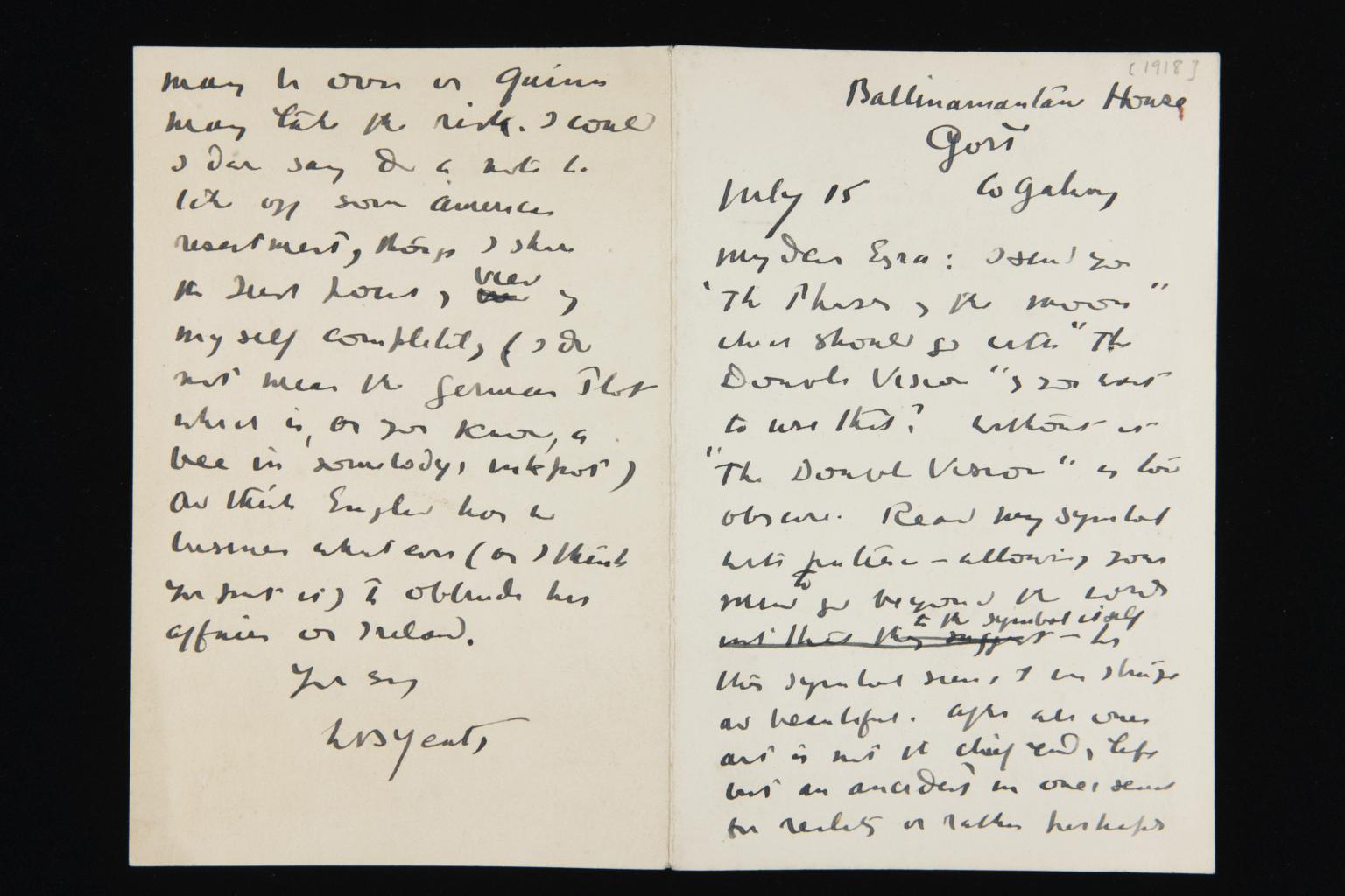 Letter written from William Butler Yeats at Ballinamantan House, Co. Galway, Ireland, to Ezra Pound, 15 July 1918. Yale Collection of American Literature, Beinecke Rare Book and Manuscript Library, Yale University, New Haven, Connecticut.